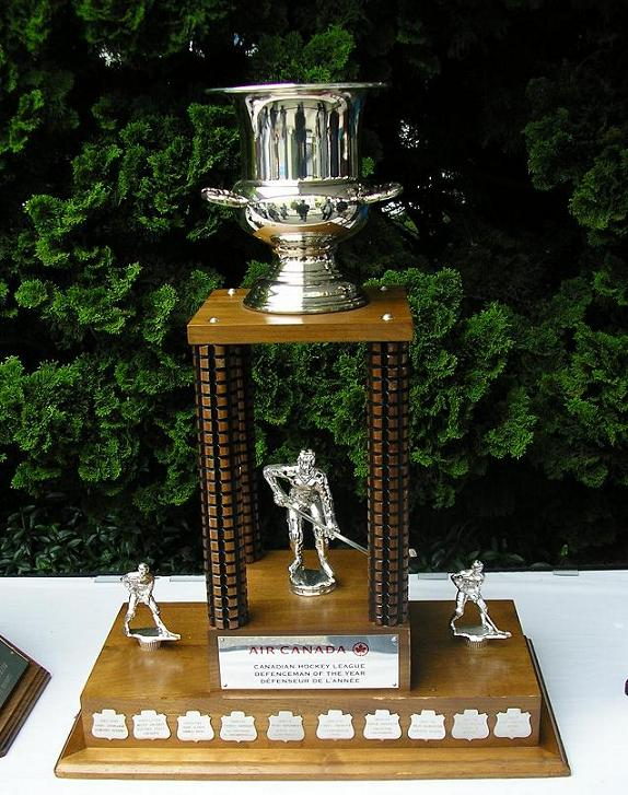 Photo I took of the CHL Defenceman of the Year trophy at the 2007 Memorial Cup in Vancouver.